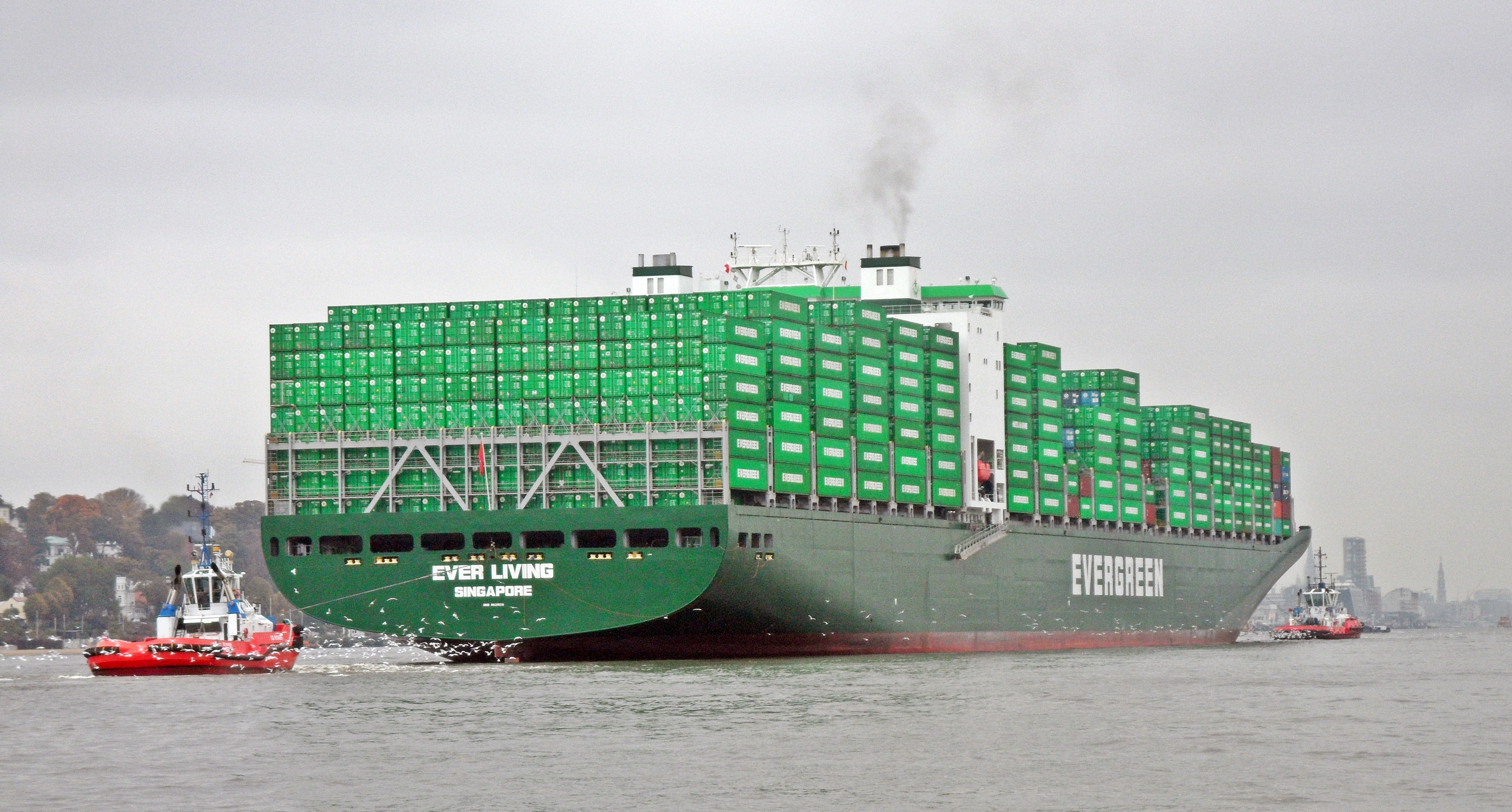 Container ship Ever Living on the river Elbe Destination Hamburg - rear side